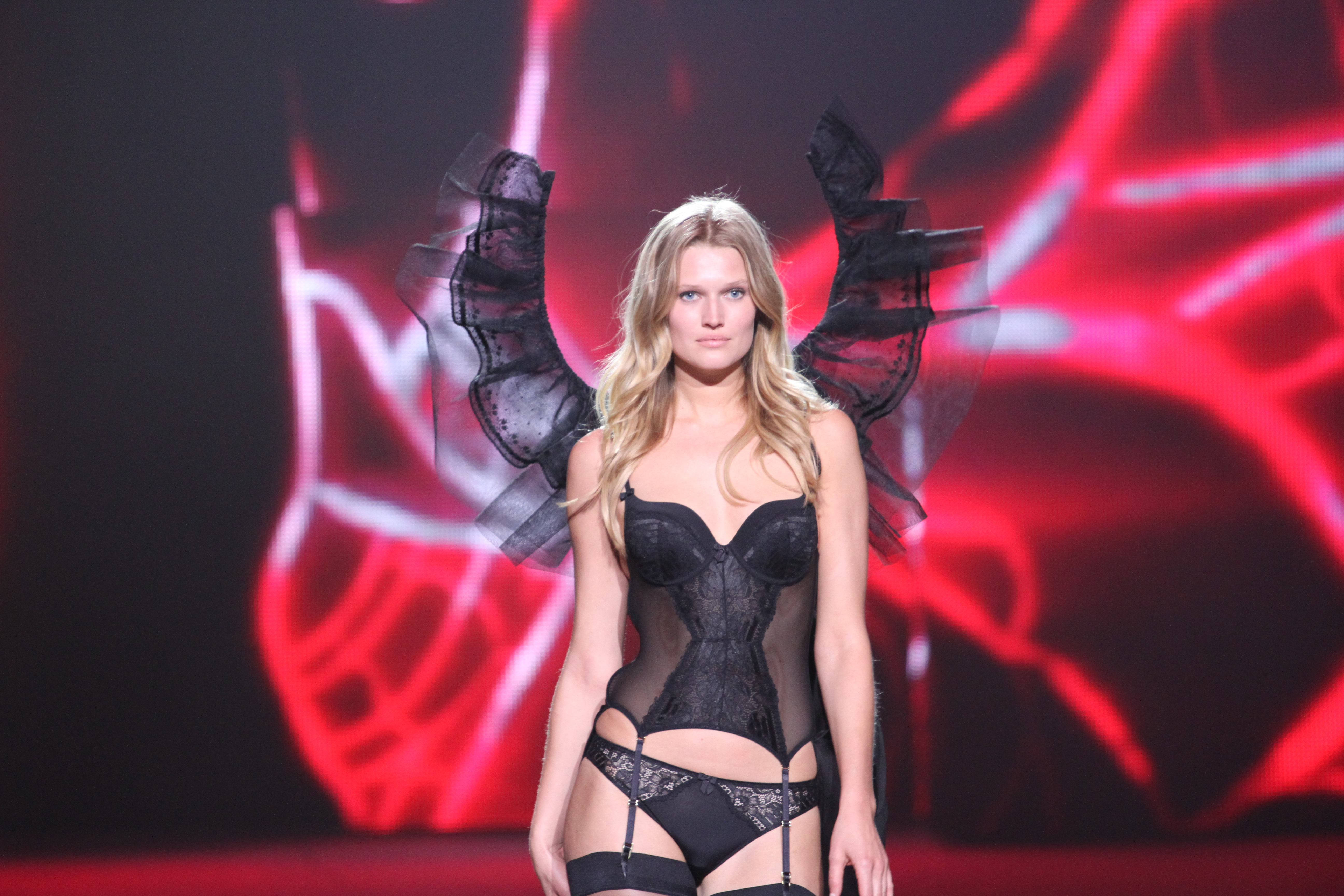 Toni Garrn an der Energy Fashion Night vom 07.05.2016